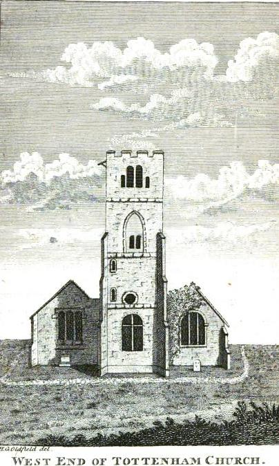 All Hallows parish church, Tottenham, Middlesex, seen from the west in an engraving from The history and antiquities of the parish of Tottenham Highcross, Middlesex (1790) by Henry George Oldfield and Richard Randall Dyson.